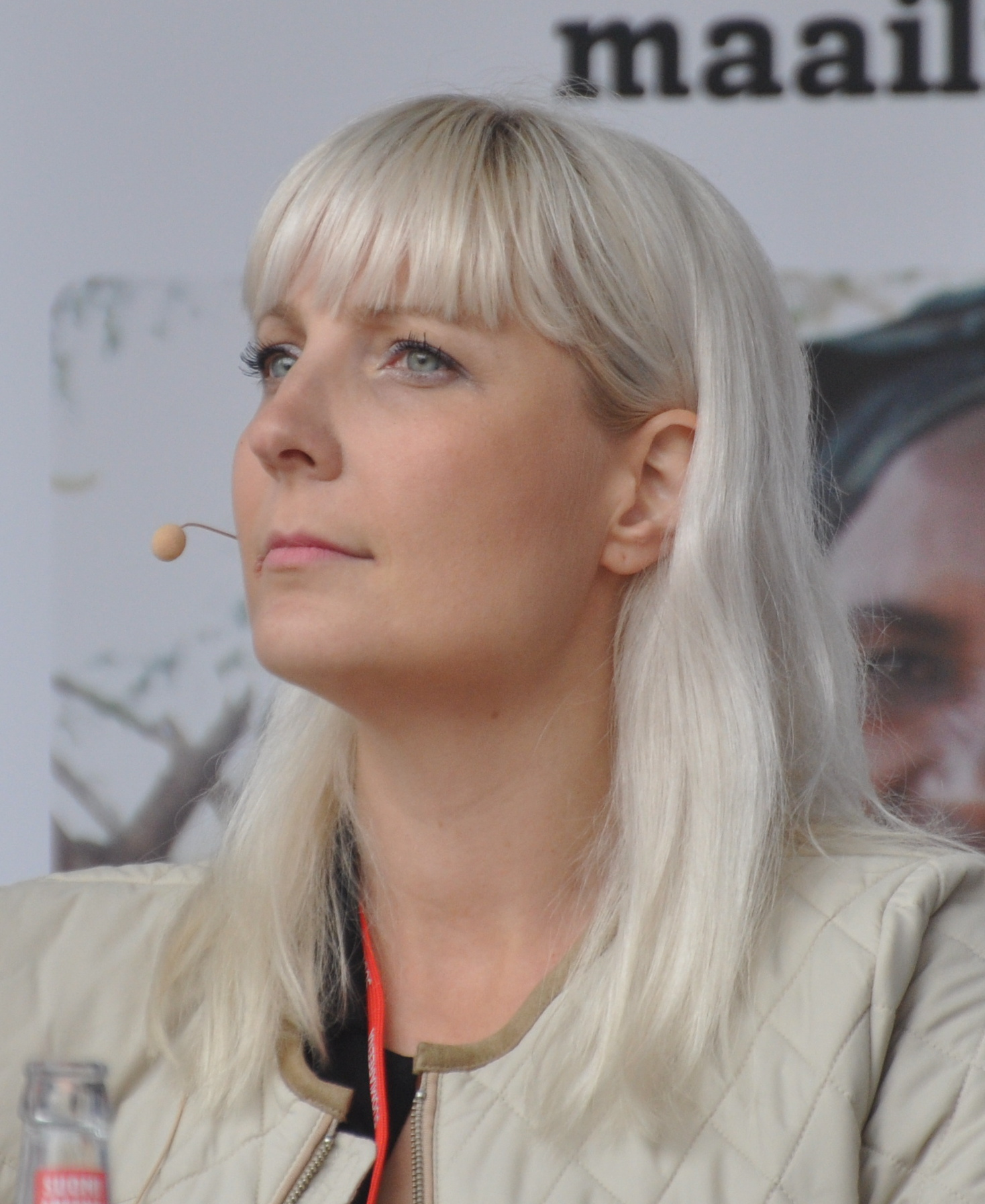 Finnish MP Laura Huhtasaari at SuomiAreena in Pori, Finland, 2016.